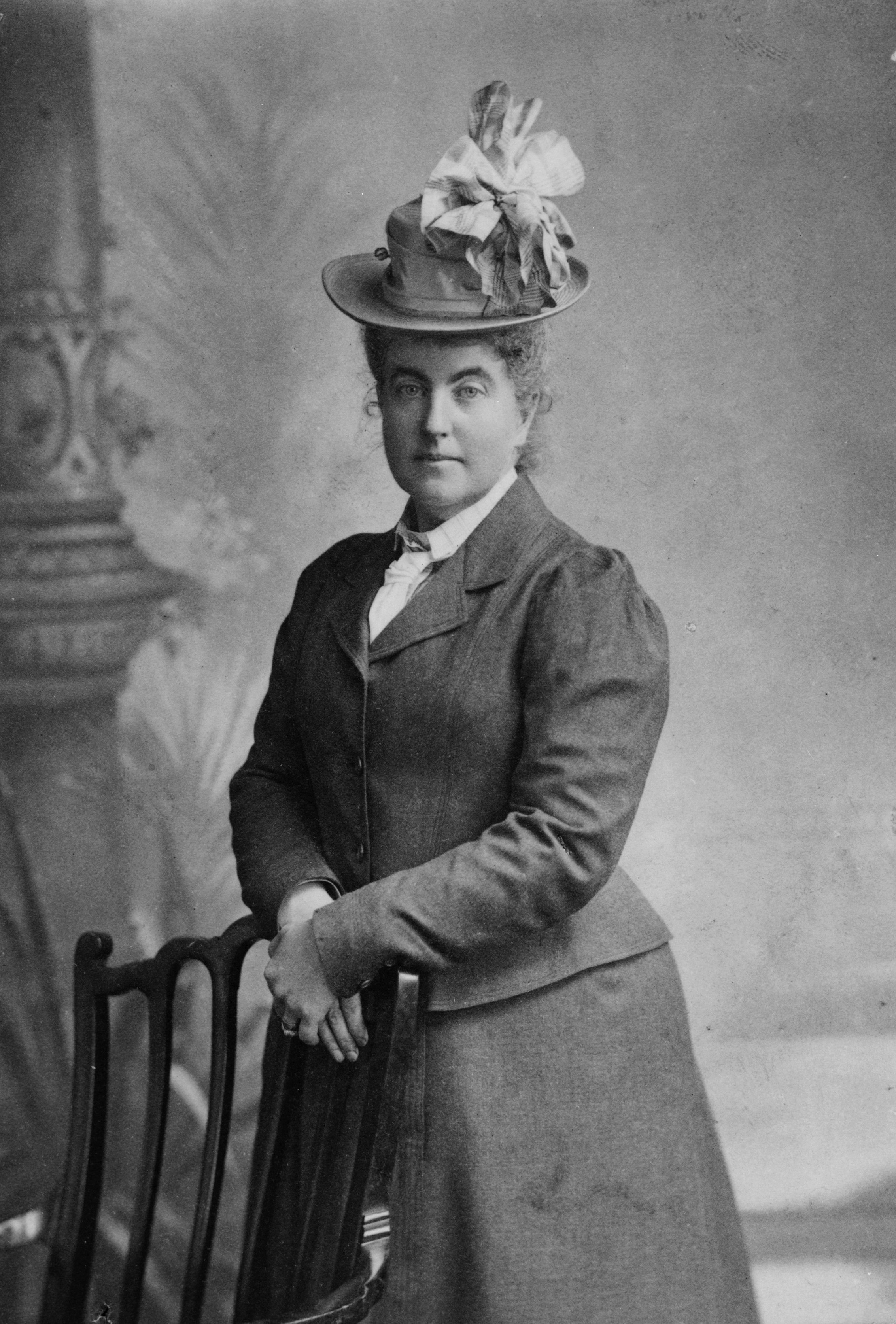 Fanny Bullock Workman (1859 - 1925), an American geographer, mapmaker, explorer, and mountaineer